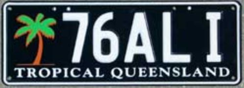 Queensland_license_plate_tropical